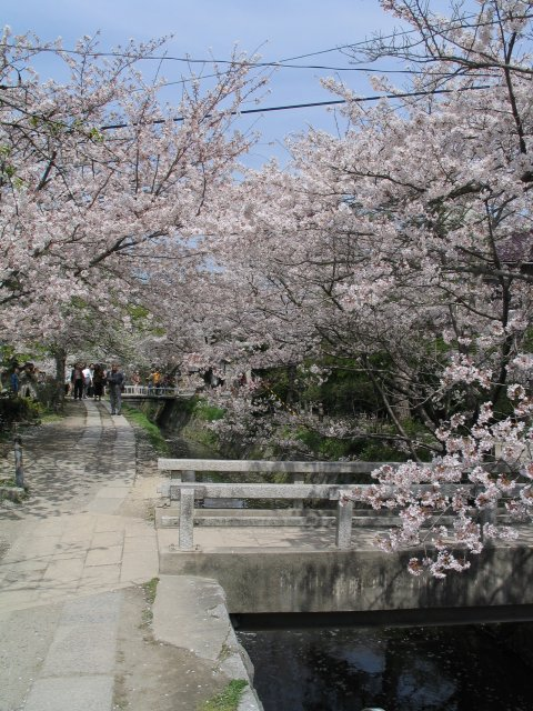 Path of philosophy in Kyoto, Japan. Photograph taken by Stephane D'Alu in April 2004.